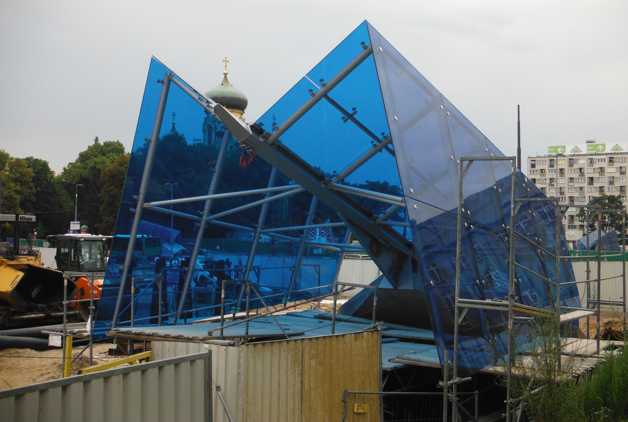 Dworzec Wileński metro station (under construction) in Warsaw (6th of July 2014).